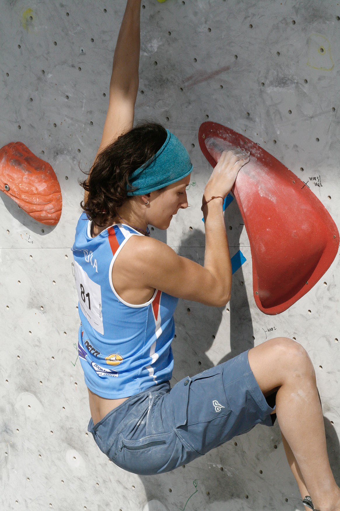 Alexandra Balakireva during qualifications at the IFSC Boulder Worldcup Vienna 2010.